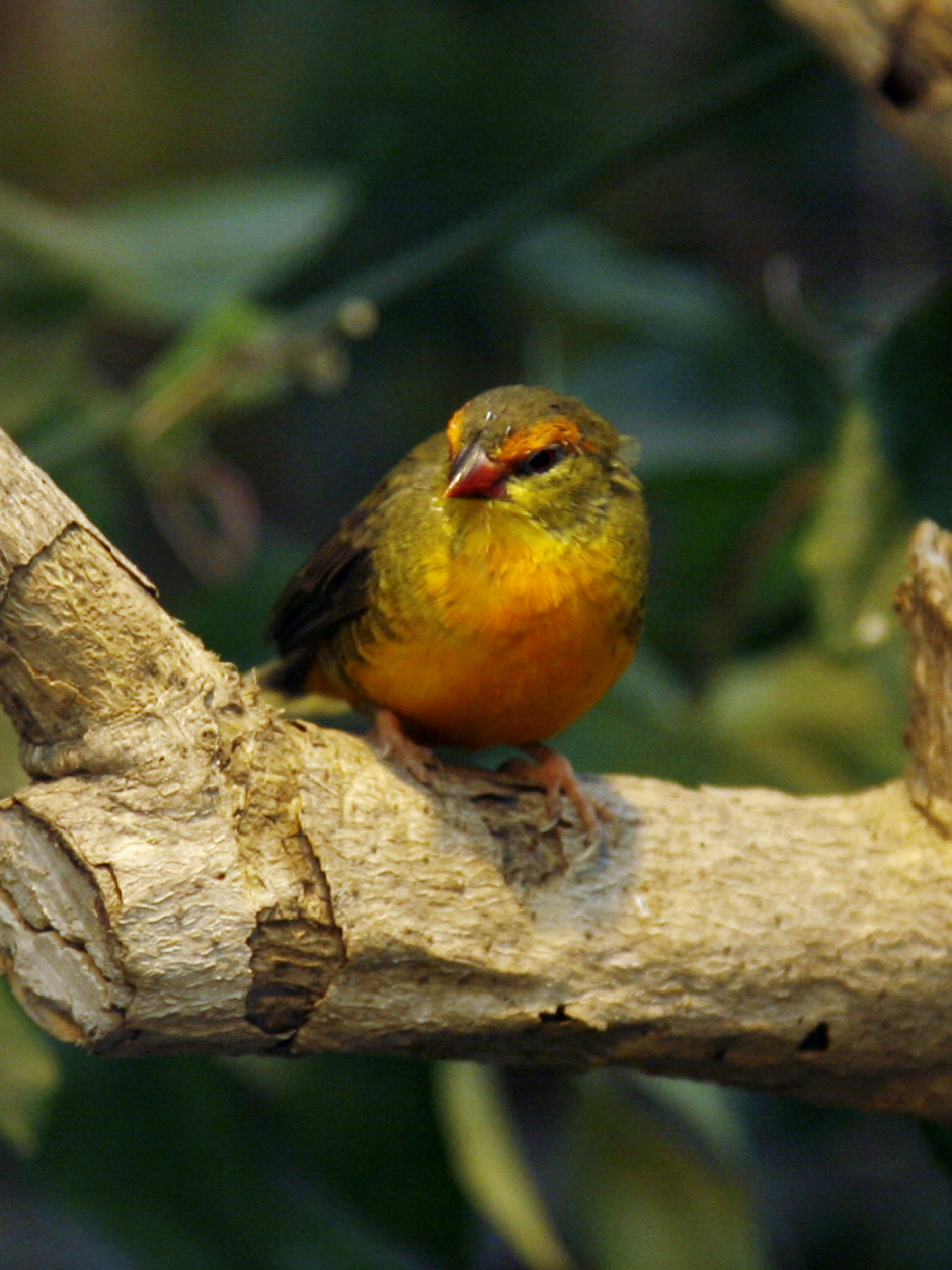 A Gold-/Orangebreasted waxbill (Amandava subflava). Fjärilshuset, Stockholm, Sweden.